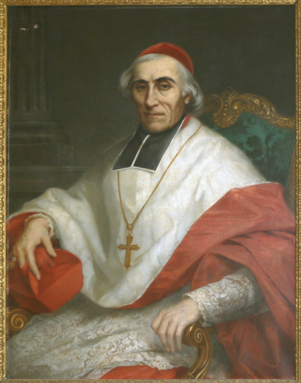 Portrait of Joseph Hippolyte Guibert (1802-1886)